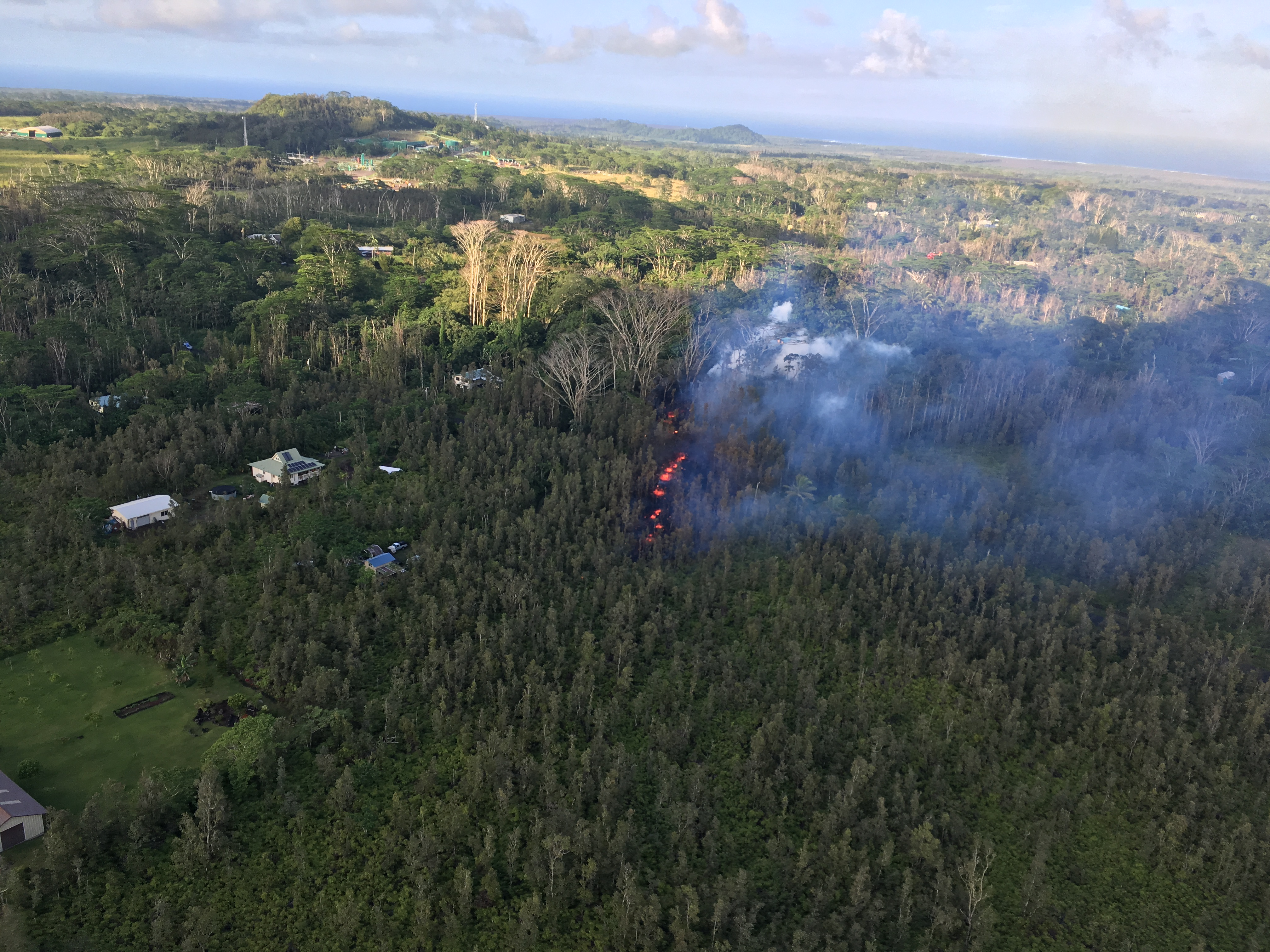 An eruption has commenced in the Leilani Estates subdivision in the lower East Rift Zone of Kīlauea Volcano. White, hot vapor and blue fume emanated from an area of cracking in the eastern part of the subdivision.